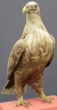 A white tailed eagle shot at Stolford in Bridgwater Bay